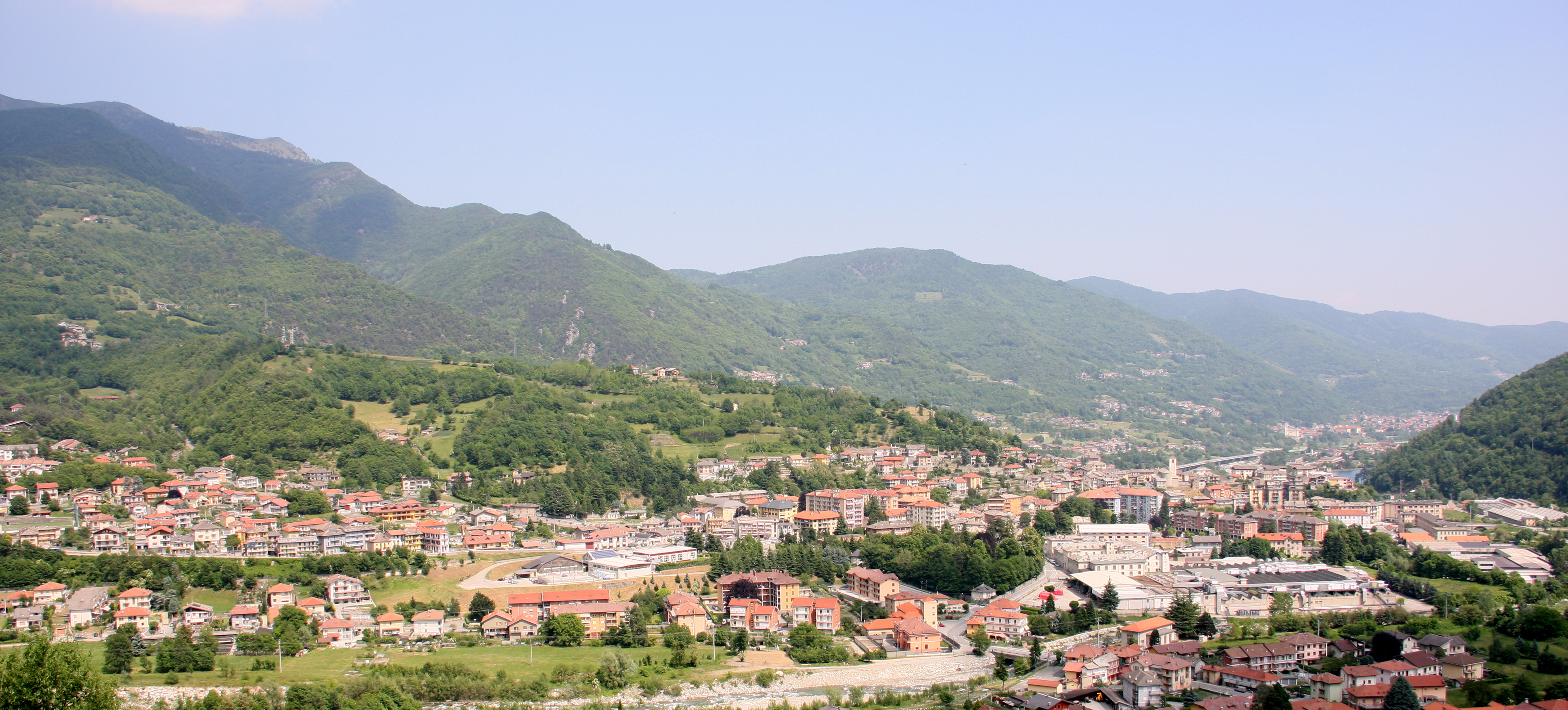 City of Perosa Argentina, Chisone Valley, province of Turin, Piemonte, Italy